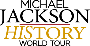 Logo of Michael Jackson's HIStory Tour